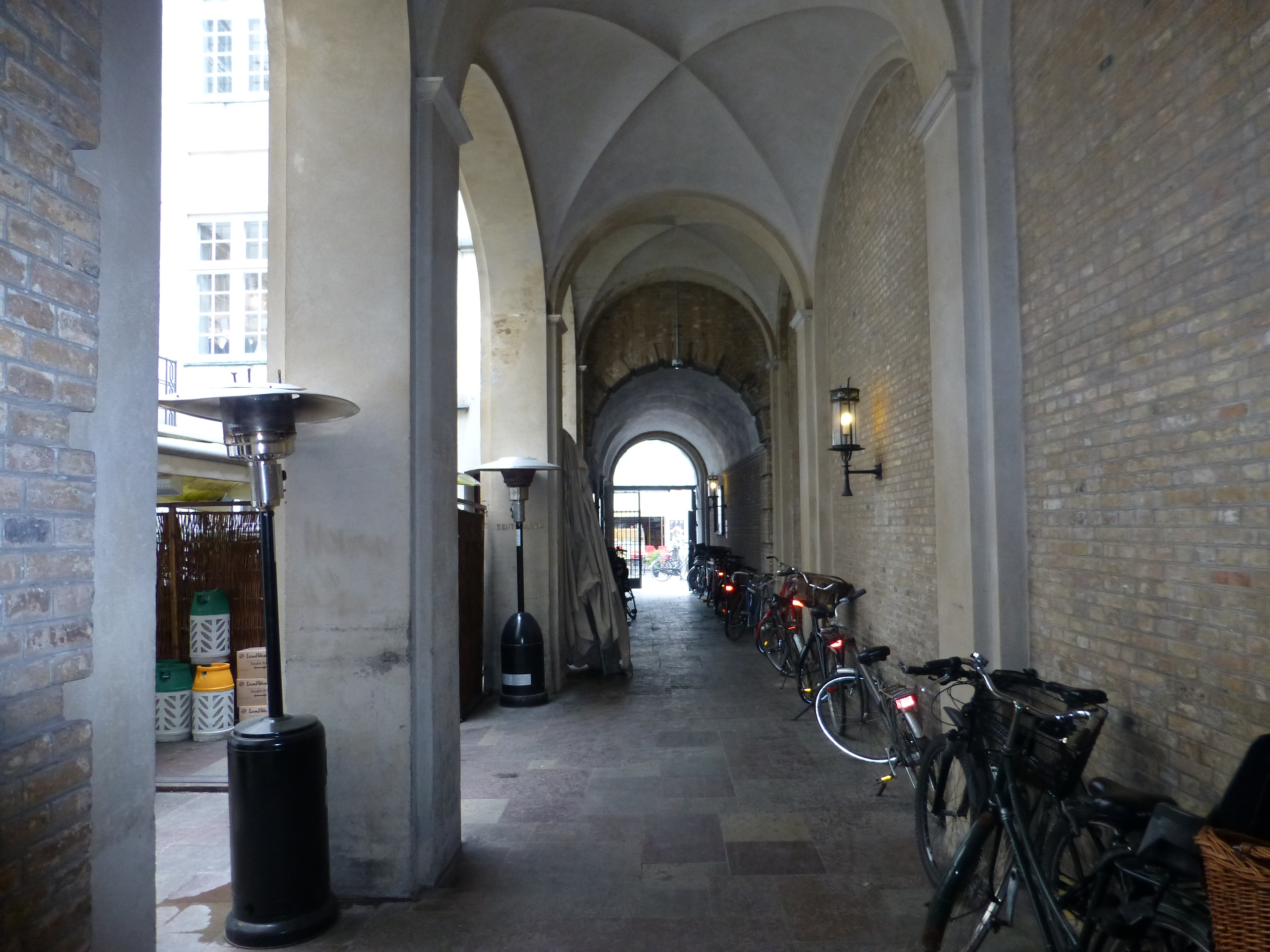 The passageway Klostergaarden between Amagertorv and Læderstræde in Indre By in Copenhagen.